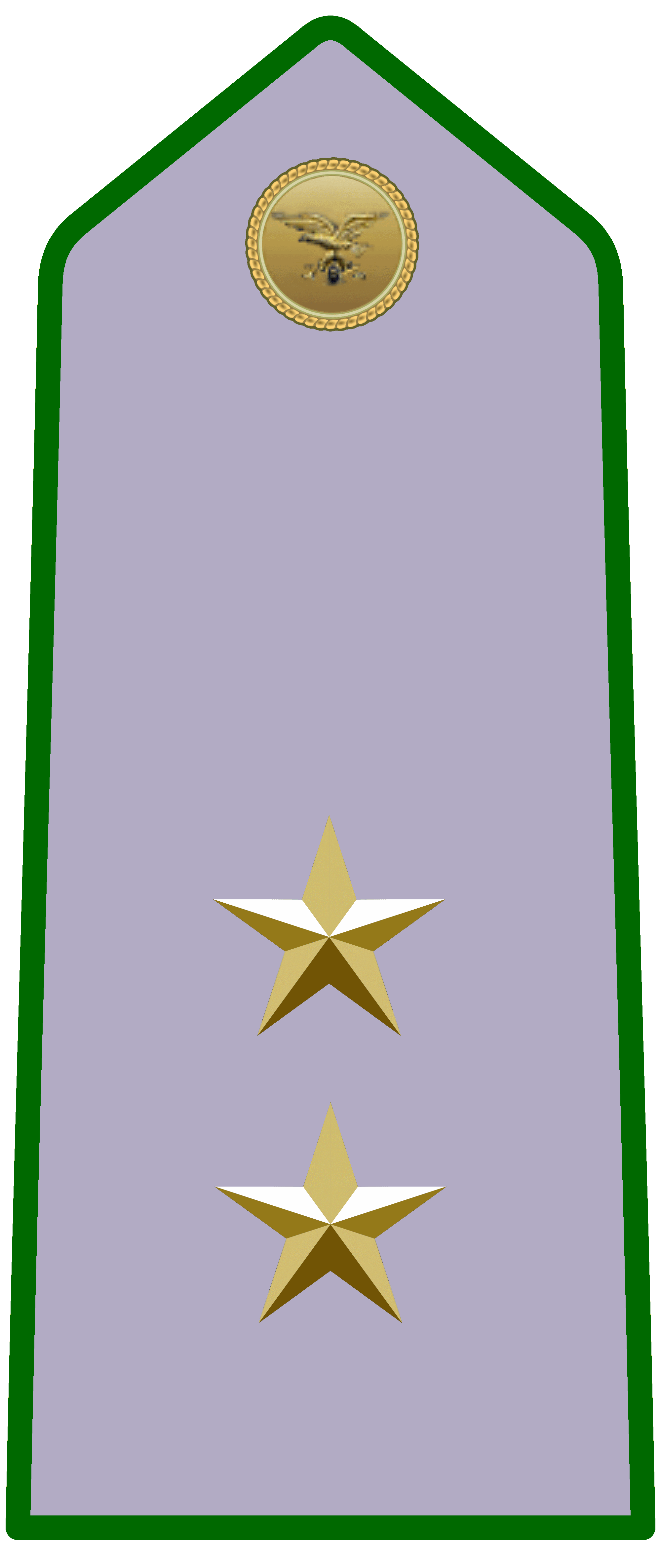 Rank insigna of "Vice commissario" of the Italian "Corpo Forestale dello Stato".